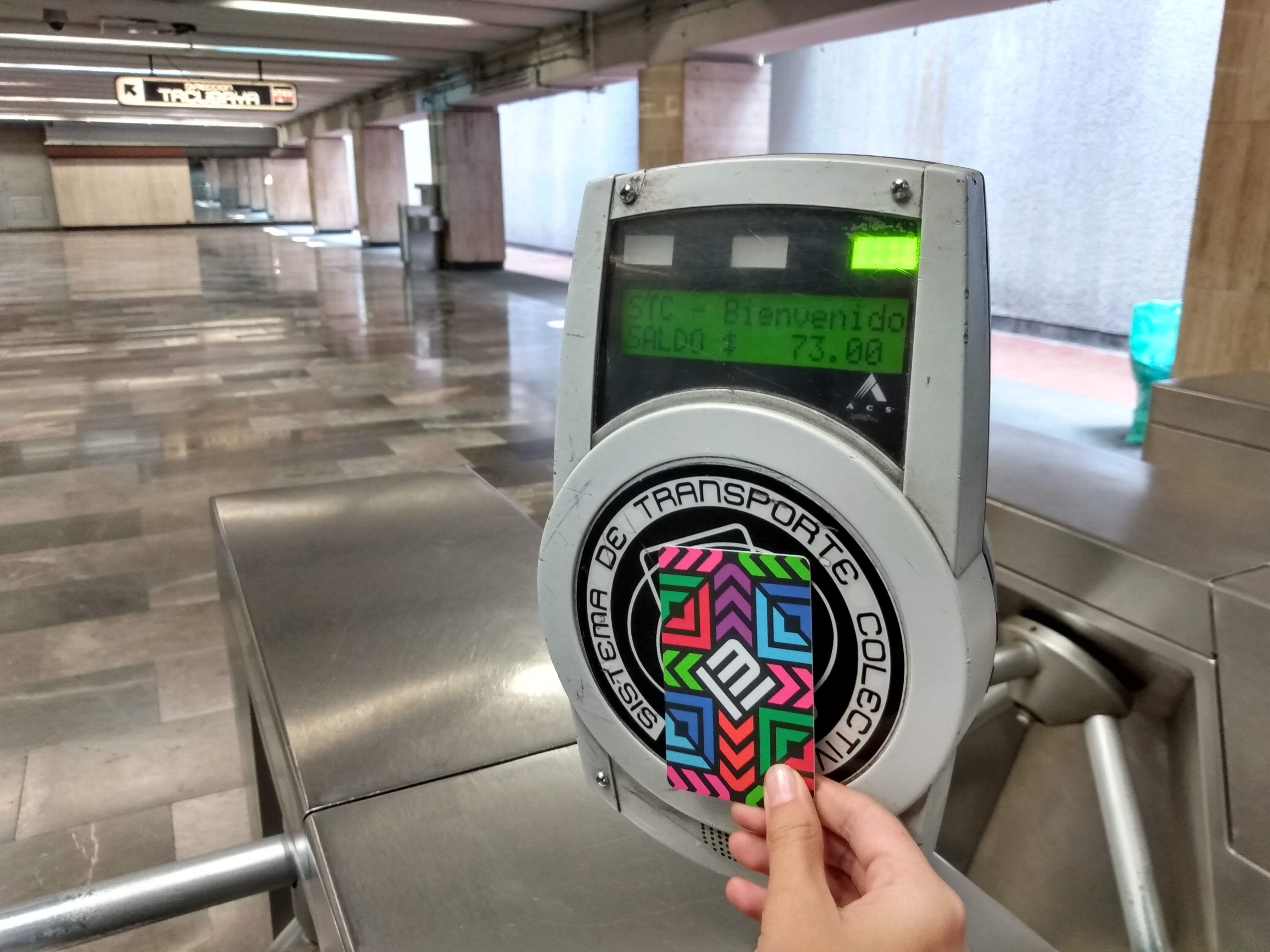 Image of the using of Mexico City Integrated Transit Card, RFID smartcard used for paying public transport.